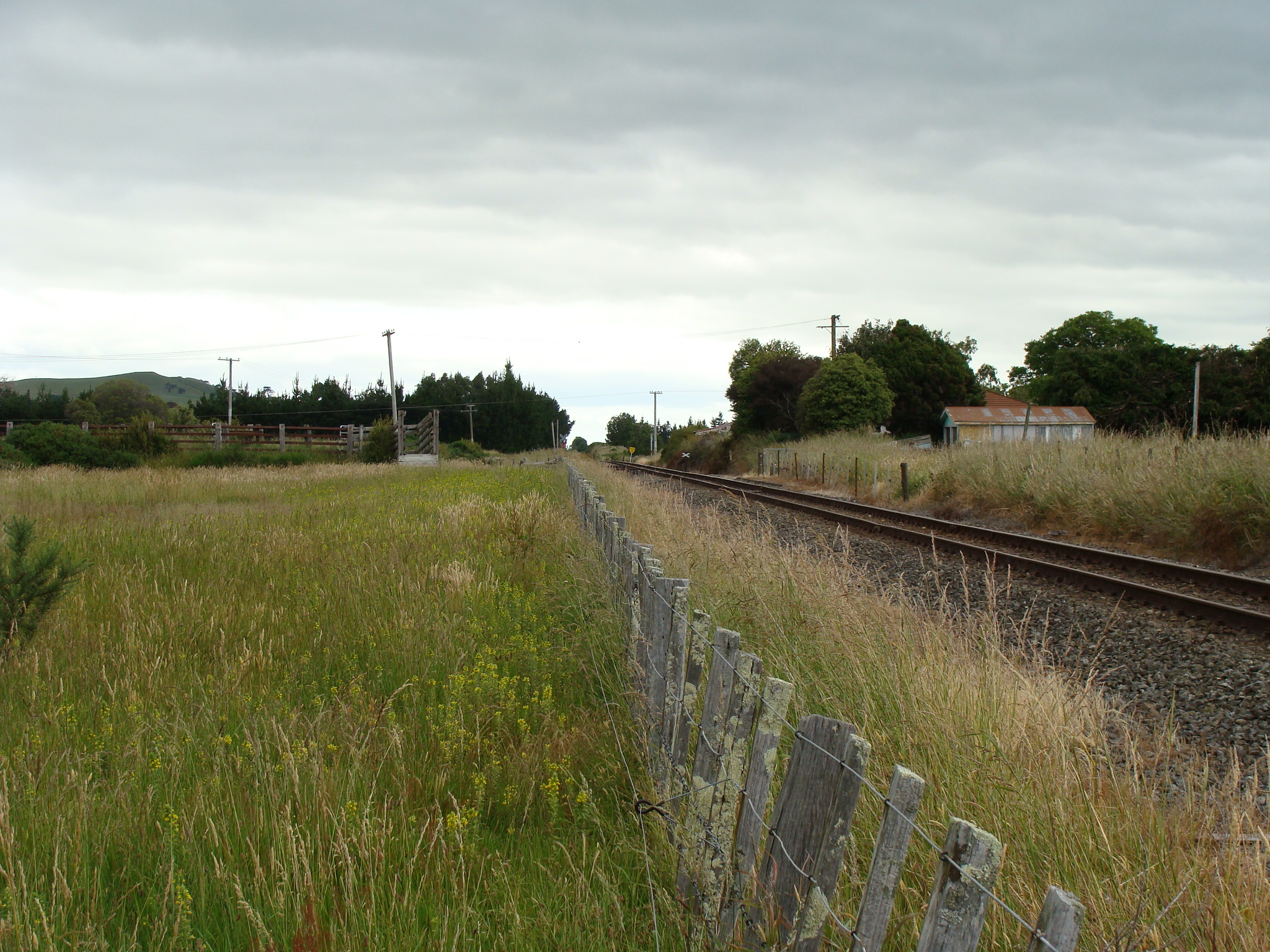 Kopuaranga railway station, looking south towards Donovans Road. To the left is the stockyard; just to the right of the track (center) is the platform; behind the trees is a house.